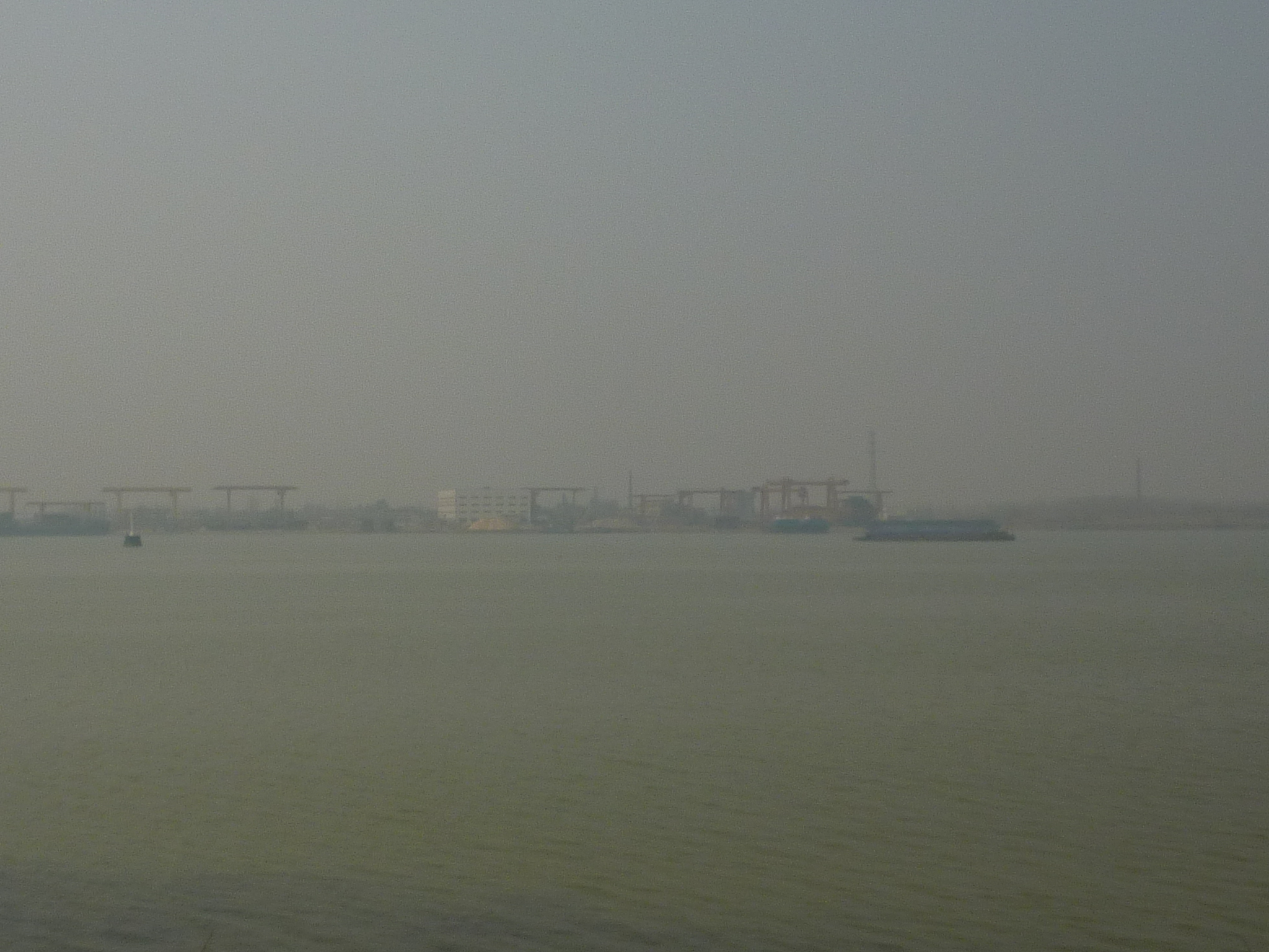 The western shore of the Grand Canal seen from the Fenghuangdao Park on the eastern shore. The canal (which, in this section, is formed by the southernmost bay of Shaobo Lake ) is about half a mile wide at this spot.